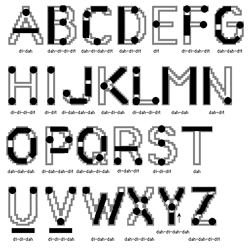 Alphabet chart designed to aid in learning Morse code.